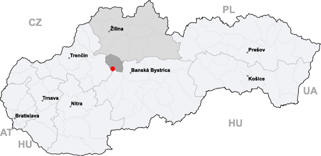 map of Slovakia, municipality of Sklené highlighted